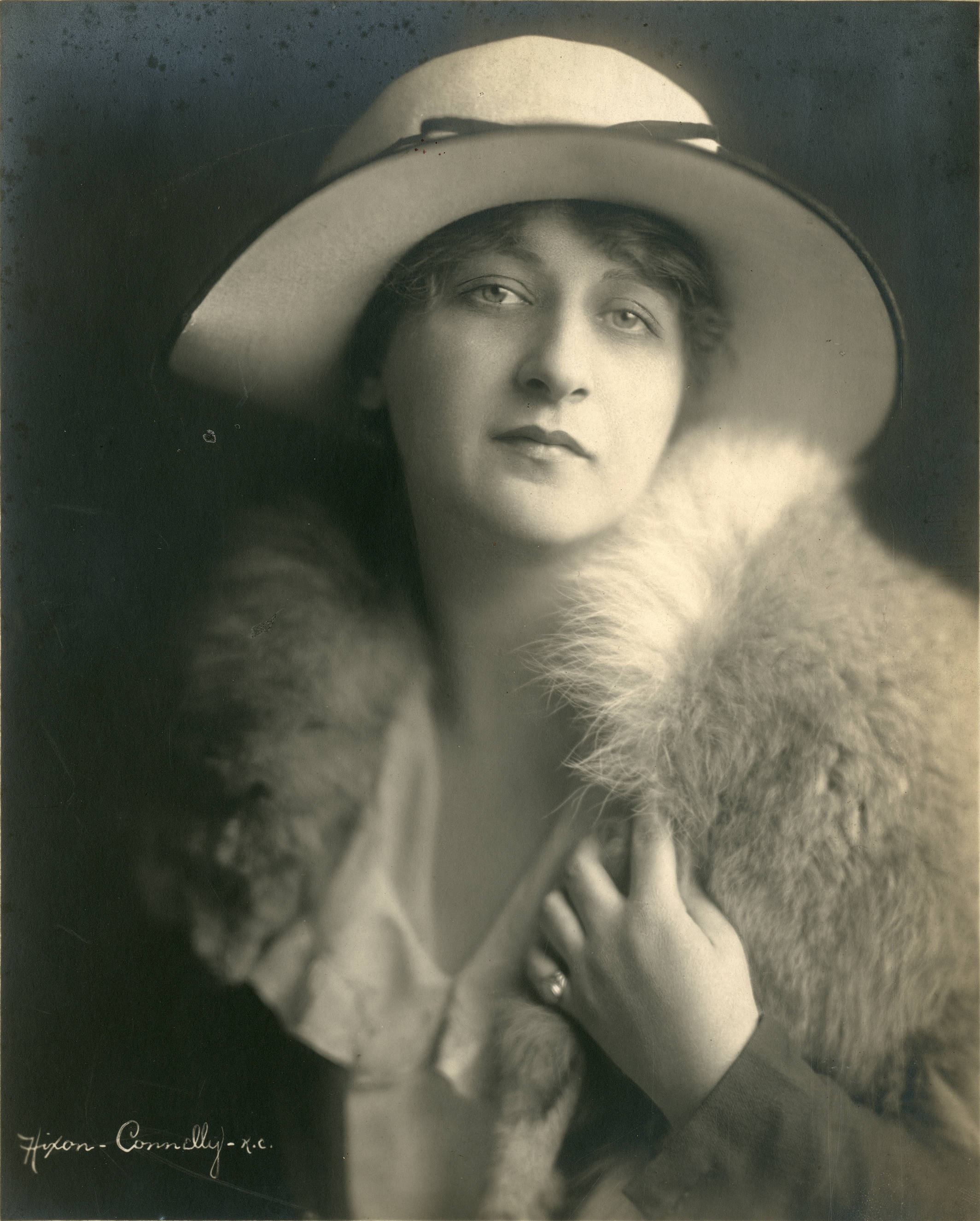 Lillian Rosedale, stage actress Subjects: actresses